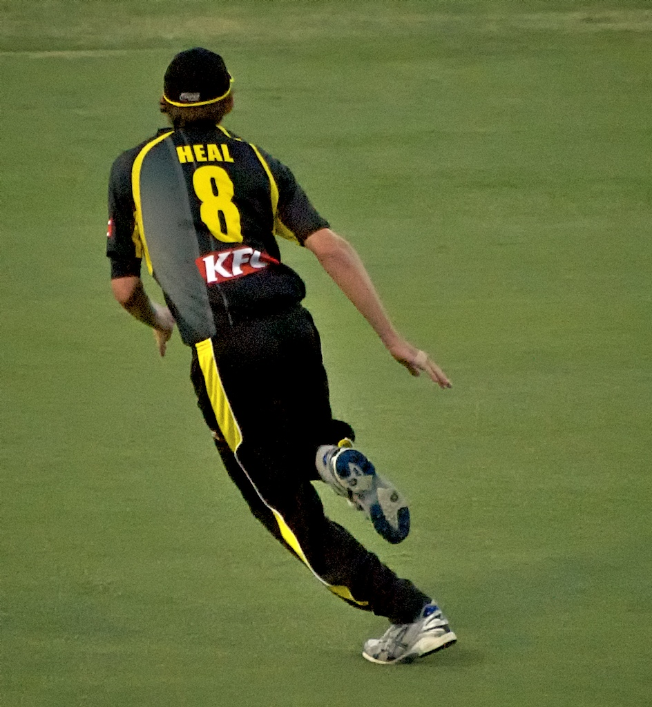 Aaron Heal at KFC Twenty20 BigBash - WA v VIC, 10 January 2010, WACA Ground